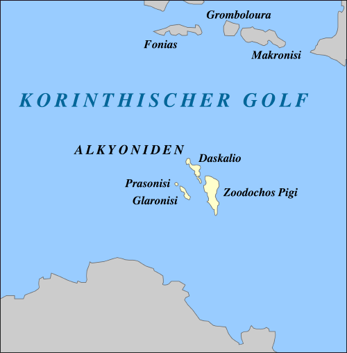 Alkyonides Archipelagos, Greece (German)